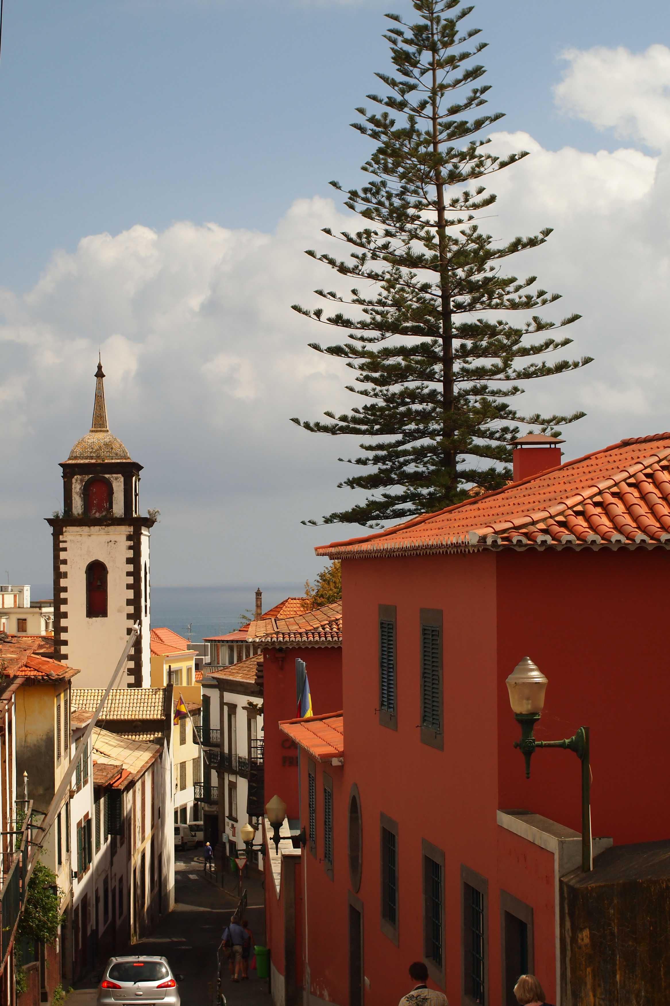 Streets of Funchal. Portugal, Autonomous Region of Madeira, Southwestern Europe.